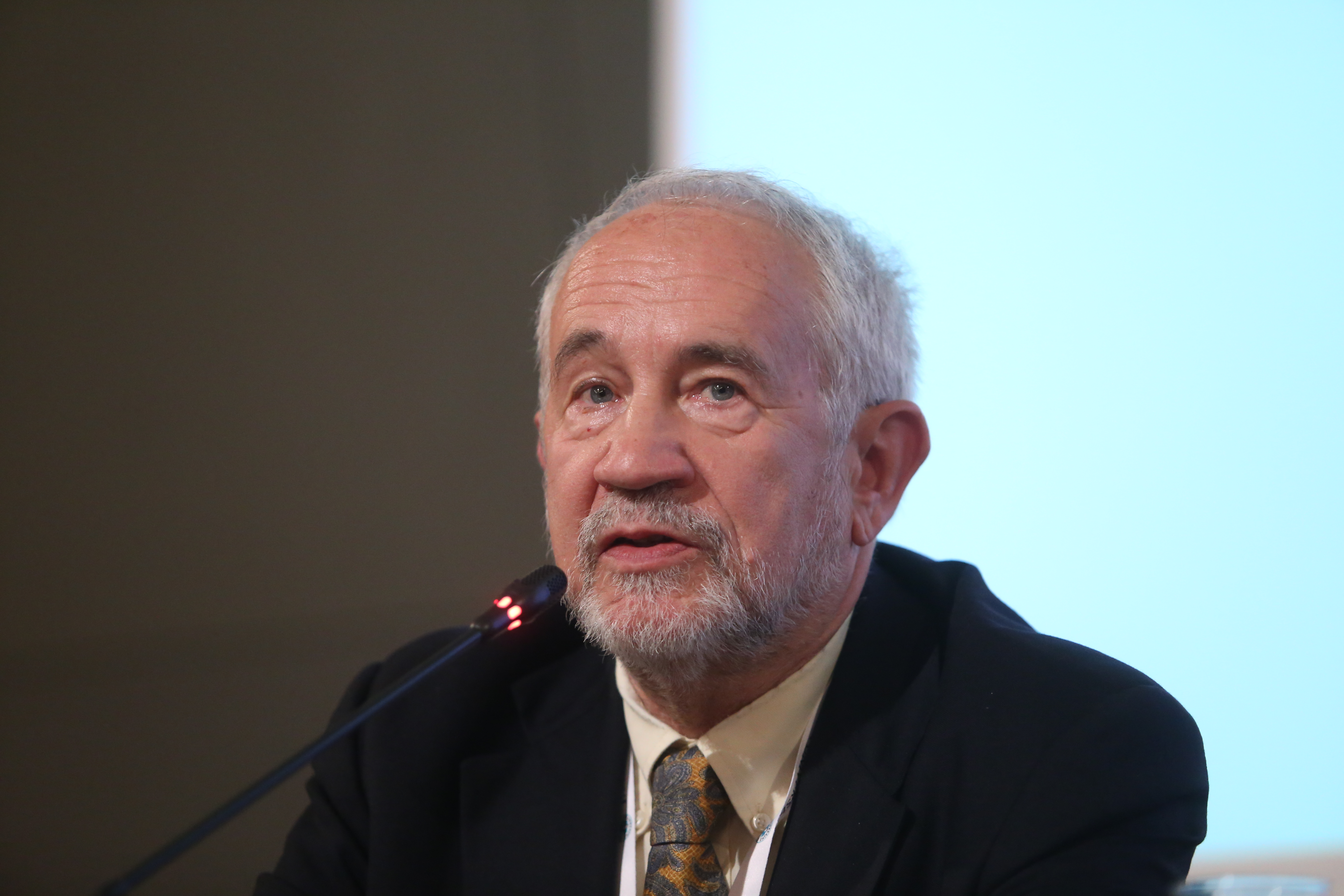 James Winston Morris at Üsküdar University